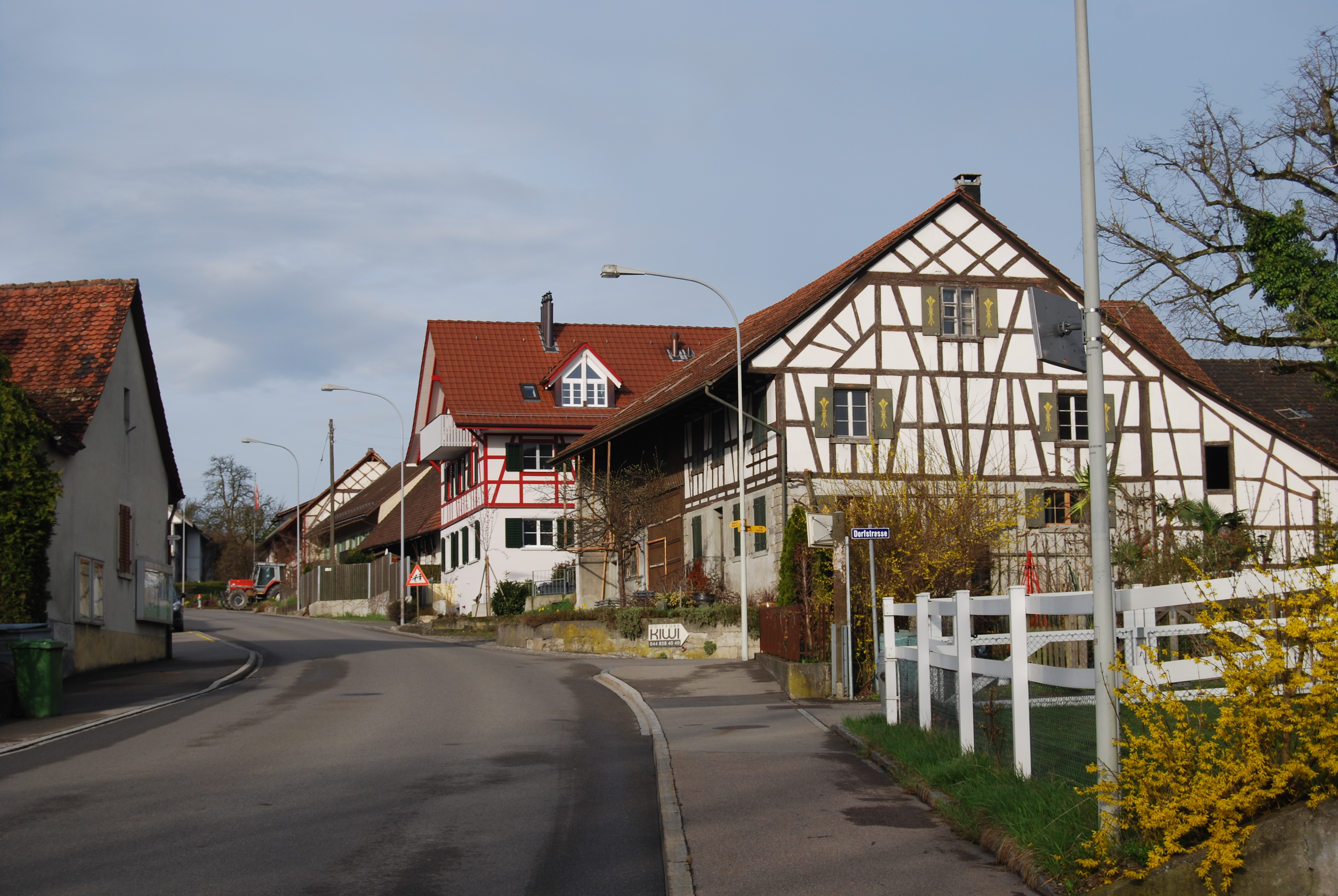 Riedt, municipality of Neerach, canton of Zürich, SwitzerlandEsperanto: Riedt, komunumo Neerach, Kantono Zuriko, Svislando